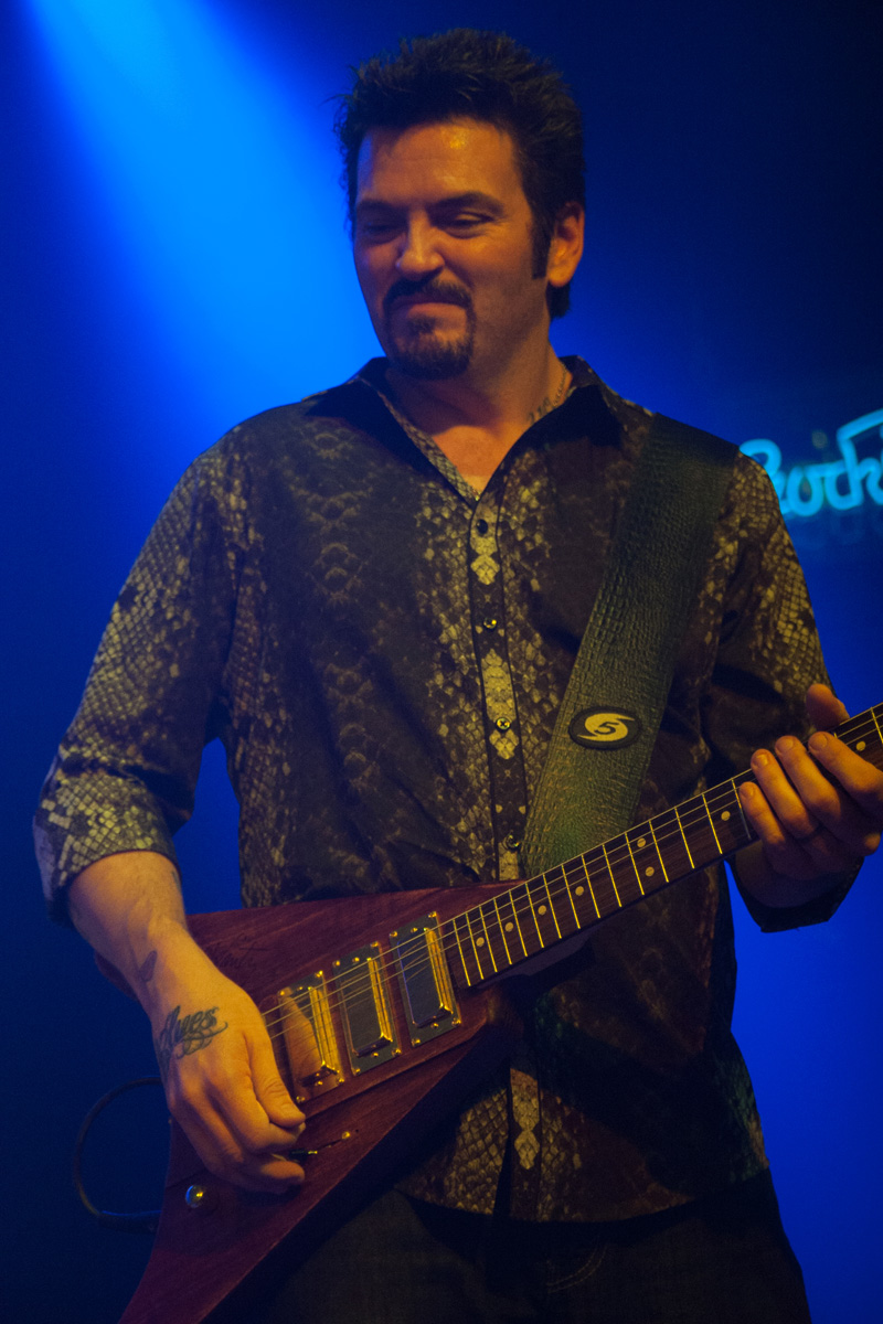 Mike Zito performing at De Harmonie, in Bonn, Germany, as part of Royal Southern Brotherhood. 2012-10-24.